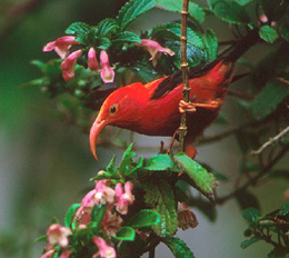 The long, down-curved, orange bill of the 'I'iwi in the Hakalau Forest NWR helps it sip nectar from tubular flowers. Credit: Jack Jeffrey/USFWS